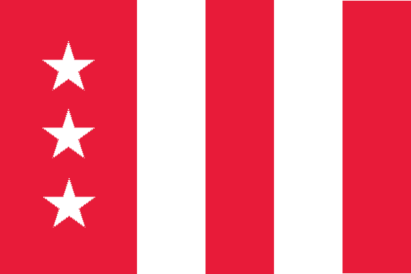 District of Columbia Flag Design proposed by the US Army Quartermaster 1924